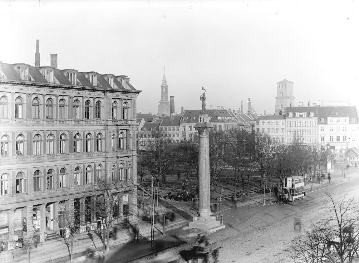 The mock-up of an earlier version of the Lur Blowers on Rådhuspladsen in Copenhagen, Denmark